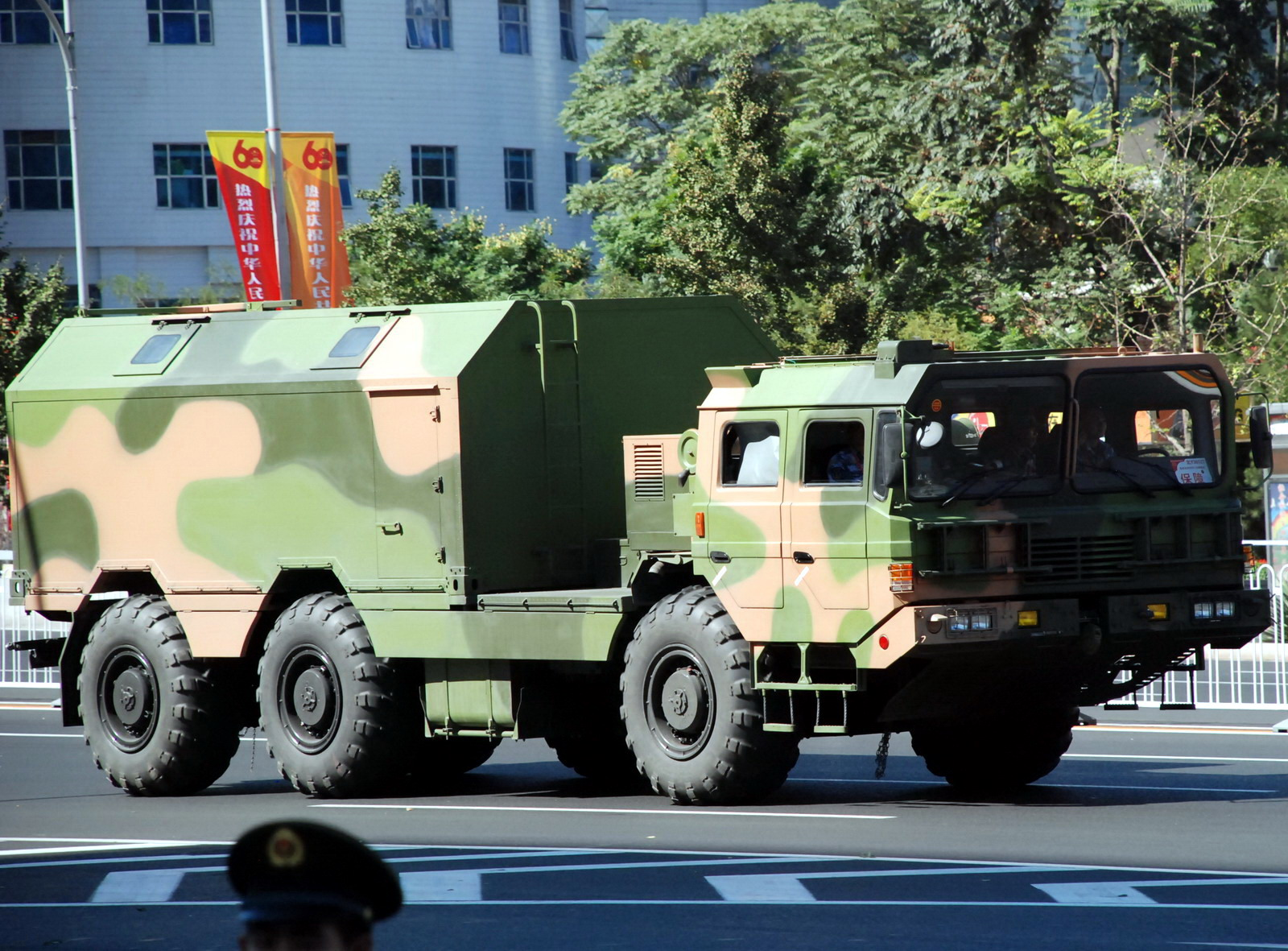 Chinese military truck during China's 60th anniversary parade, 2009.